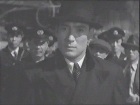 Ryūtarō Ōtomo in 1949 Japanese movie Gokumontō(Gokumon Island）.